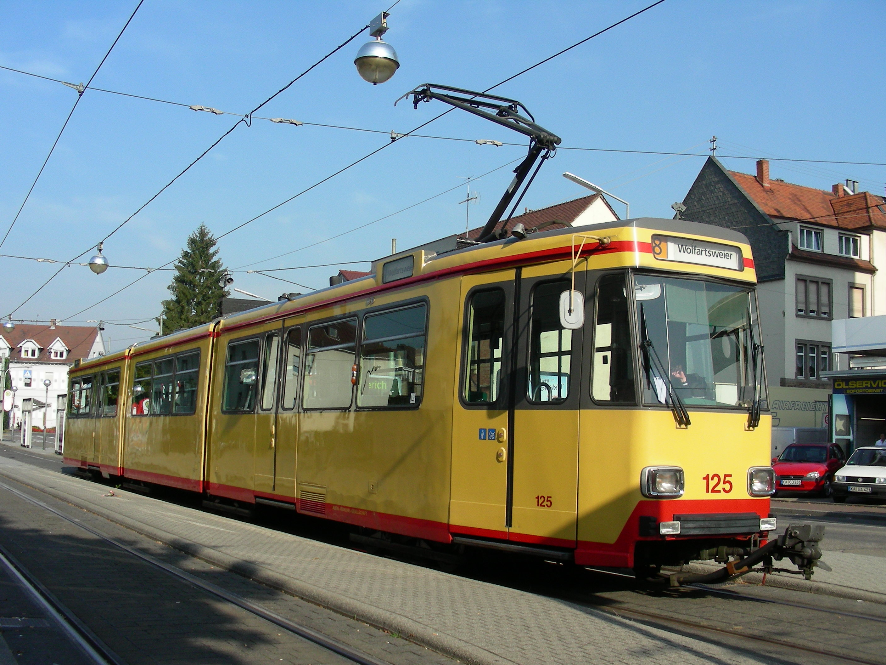 Tramway car 125 in Karlsruhe-Durlach